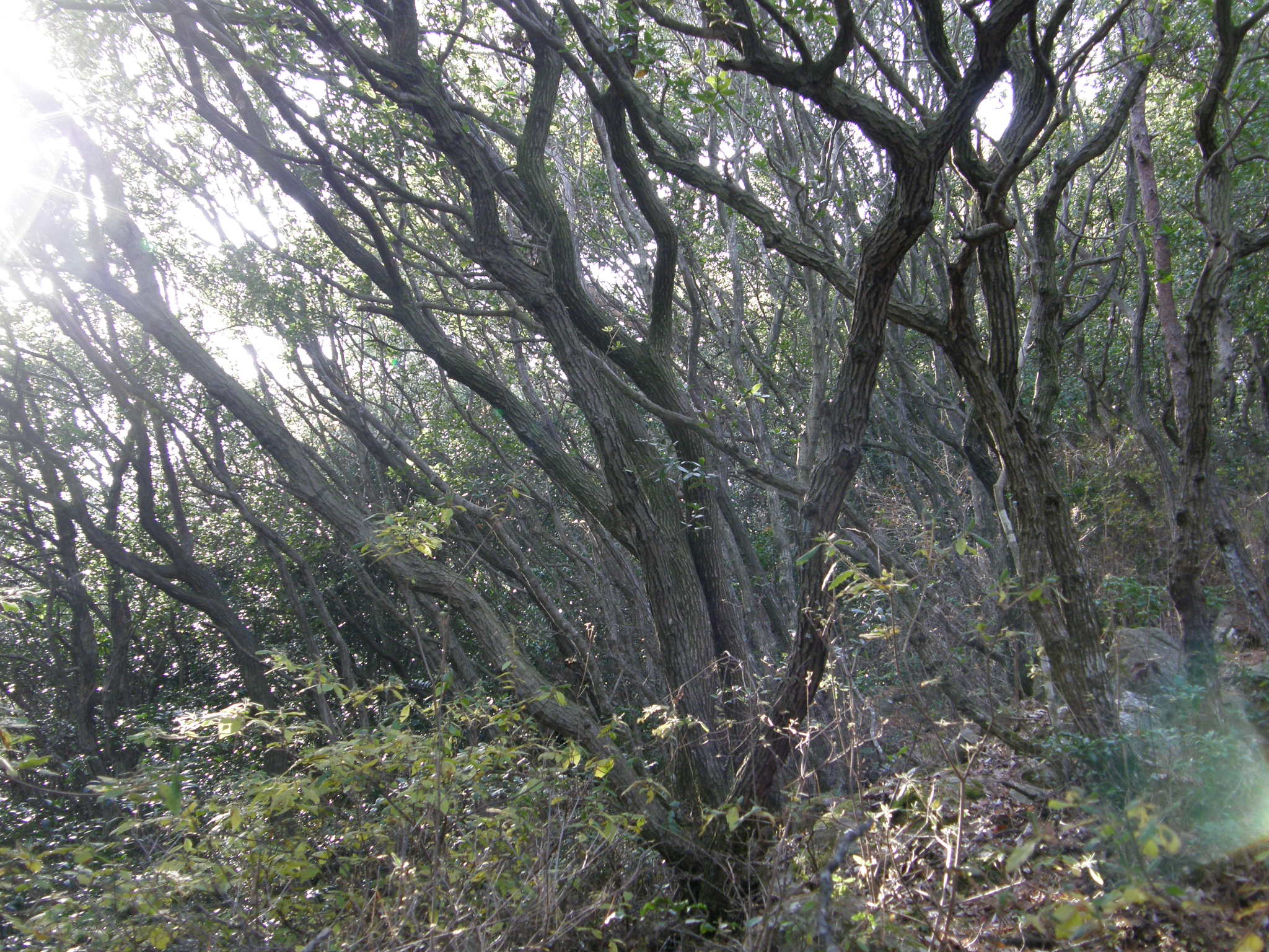 Mt. Saikoji